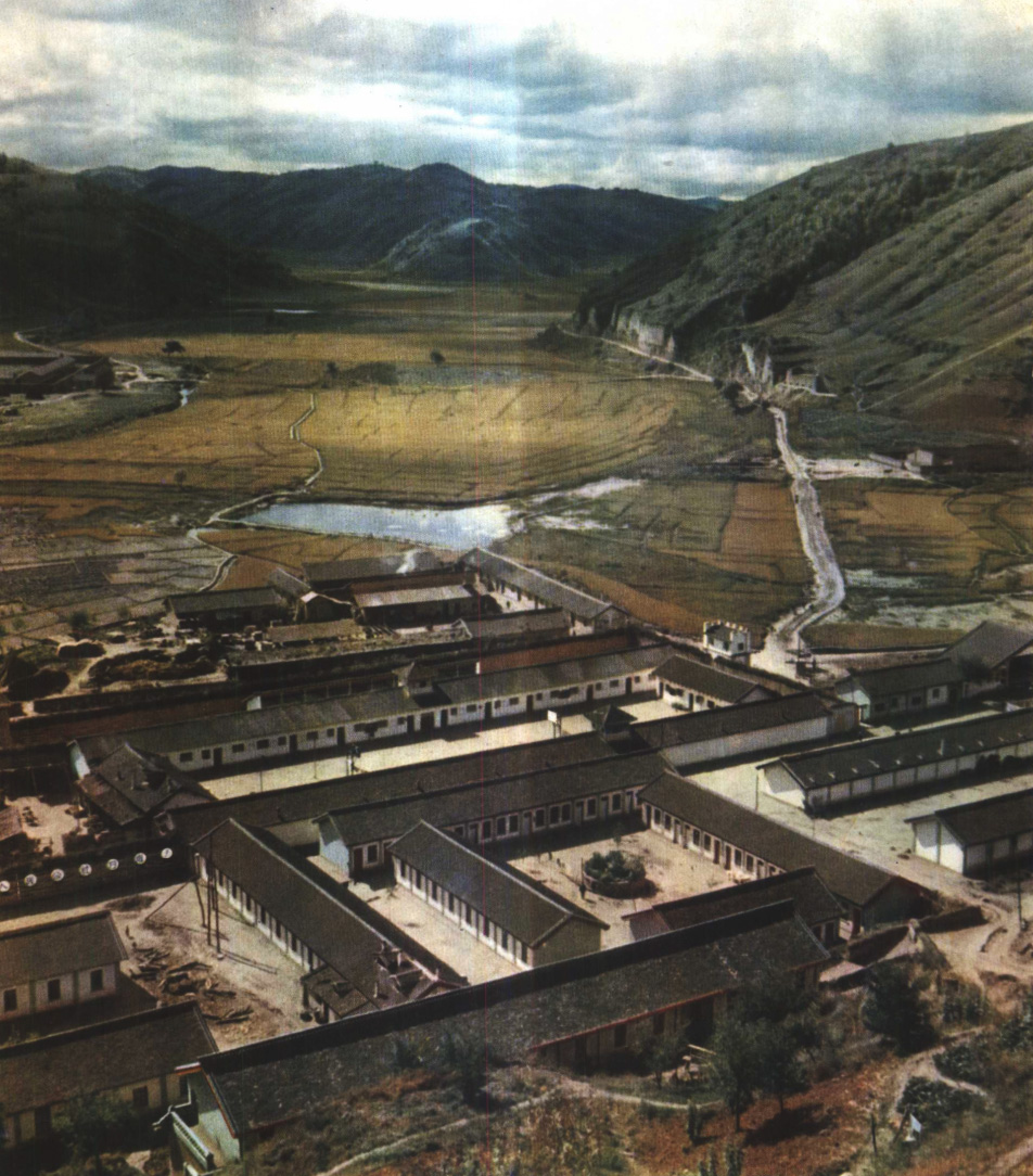 Nanniwan today.